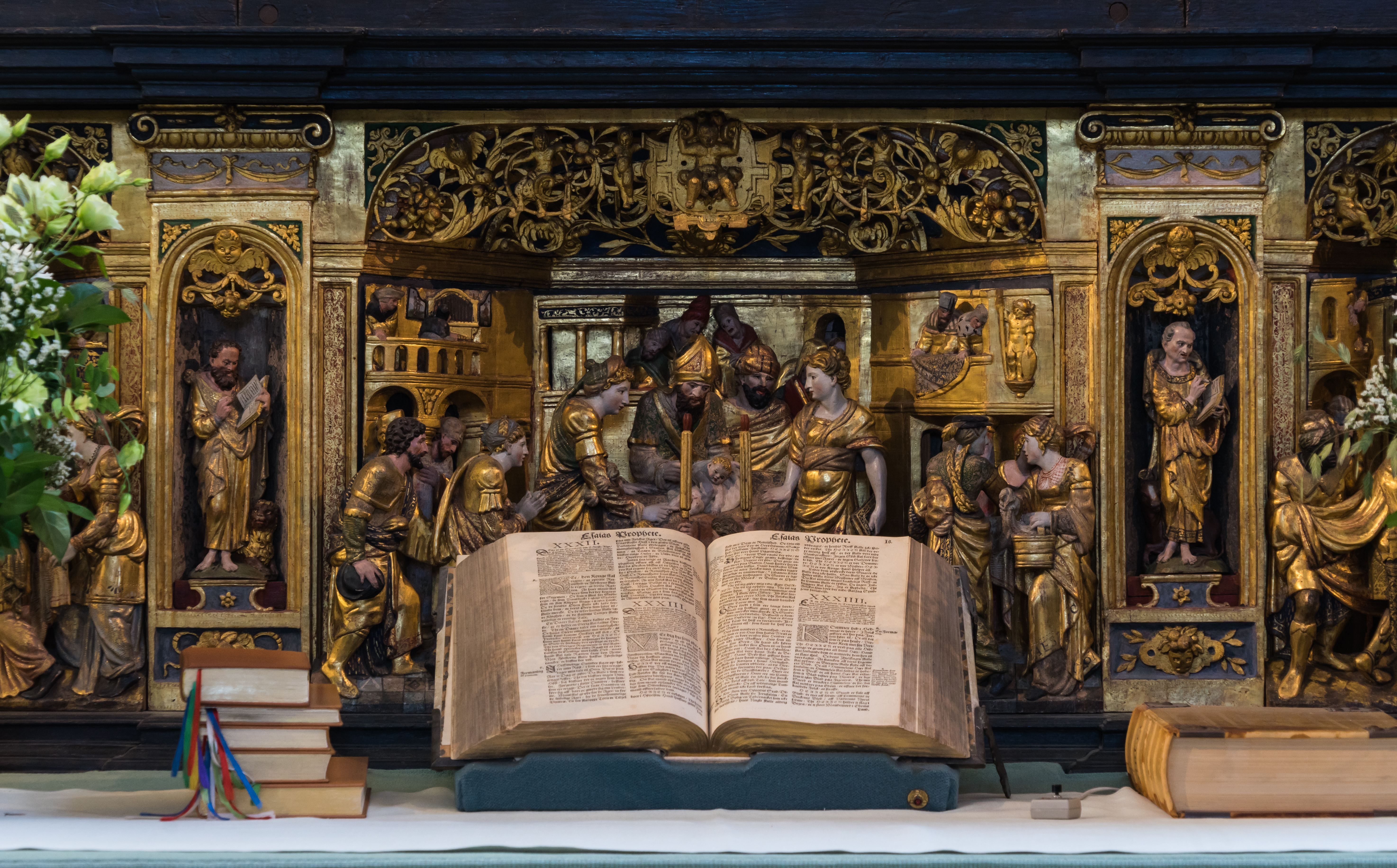 The God Book (Isaiah, XXIII), on the main altar of the Roskilde cathedral, Denmark.